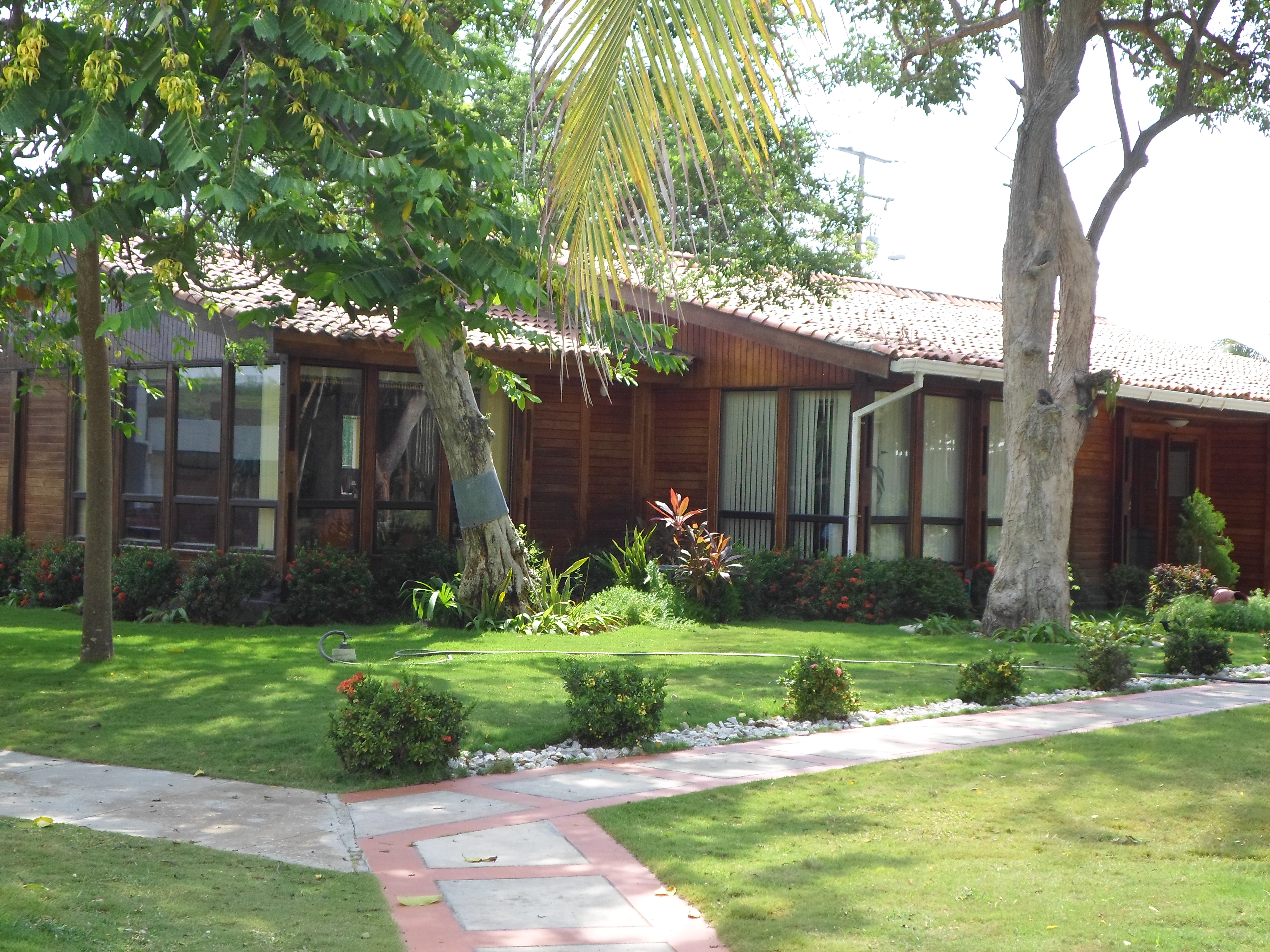 The Brown House. Director's Office